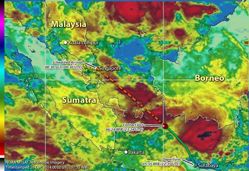 Flight path of Air Asia QZ8501 with Satellite Imagery on approx the time when the plane disappeared or lost contact.